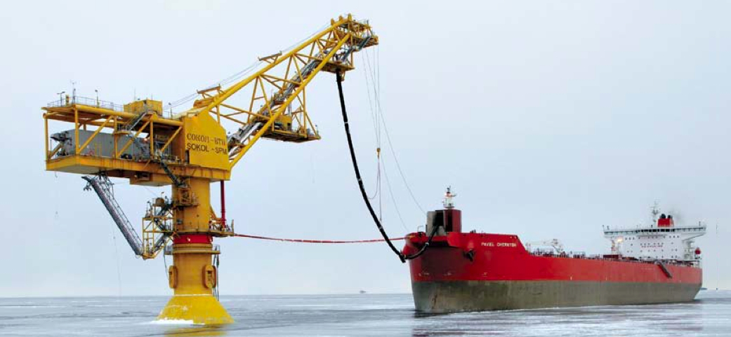 De-Kastri Exxon Mobil terminal